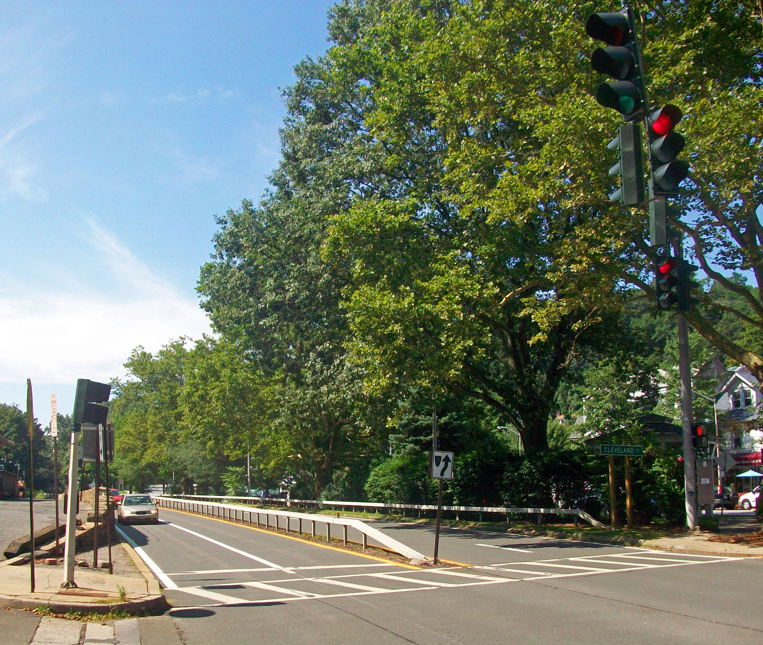 Junction of Cleveland Street and Taconic State Parkway near southern end of latter, Valhalla, NY, USA. This is one of the few traffic lights remaining on the Taconic.